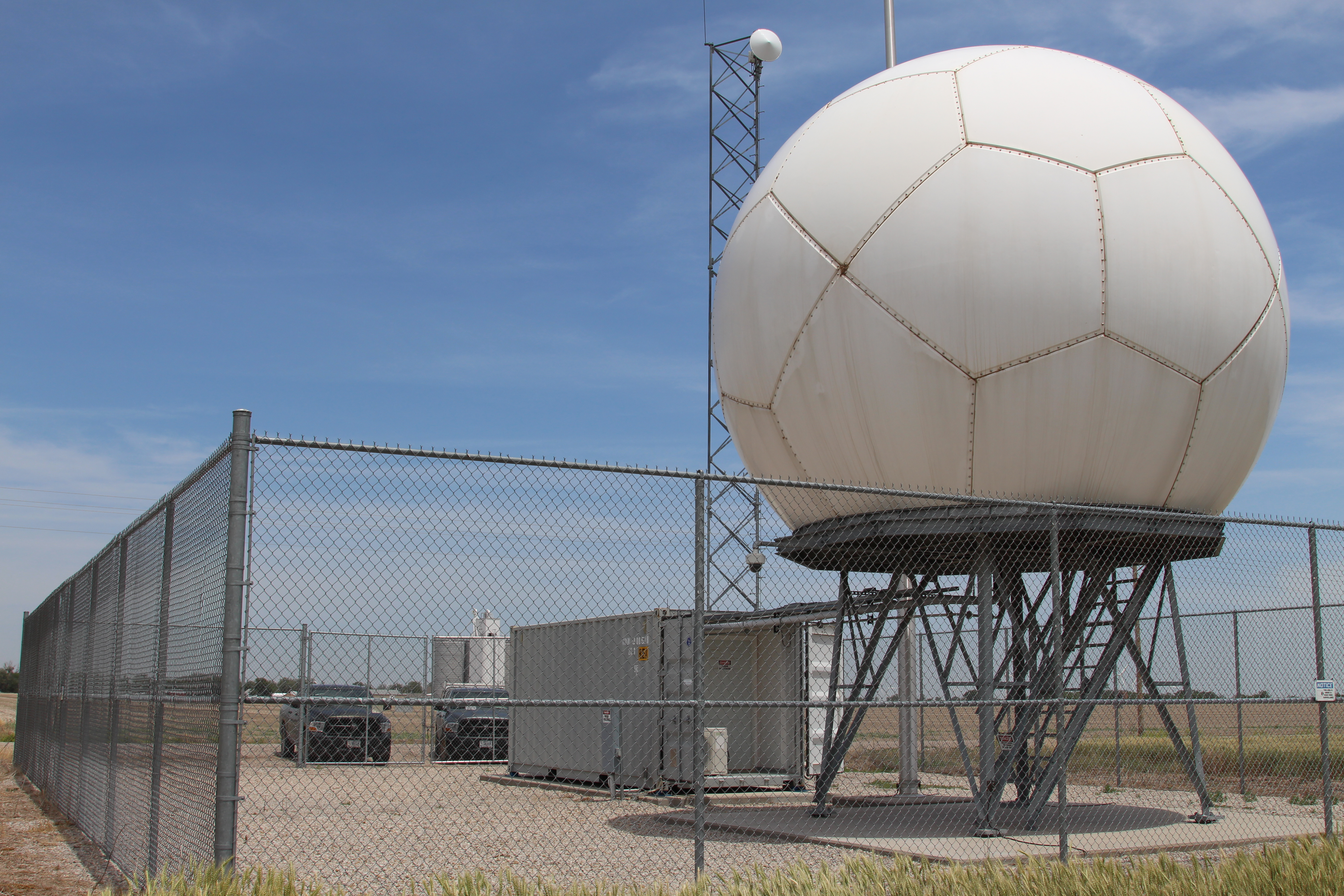 Three X-band scanning precipitation radars are located throughout the Southern Great Plains site. They are dual-polarized Doppler weather radars that simultaneously transmit and receive both horizontal and vertical polarizations, providing measurements to identify precipitation type and to estimate rainfall rates. Positioned around the Central Facility, they also provide the capability to use multi-Doppler velocity retrievals to estimate wind fields.